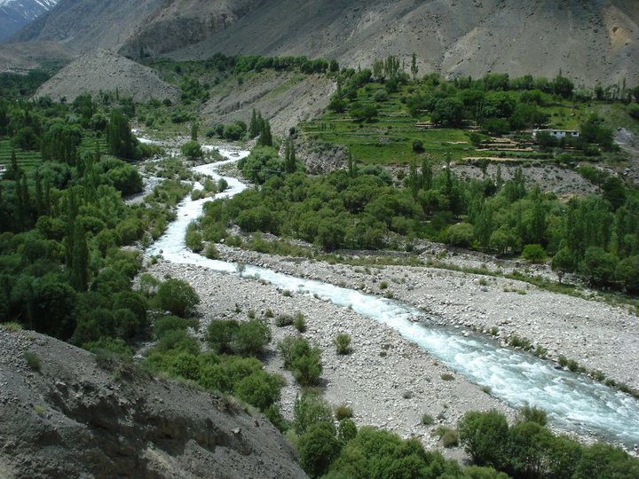 Skardu Valley, well part of it.